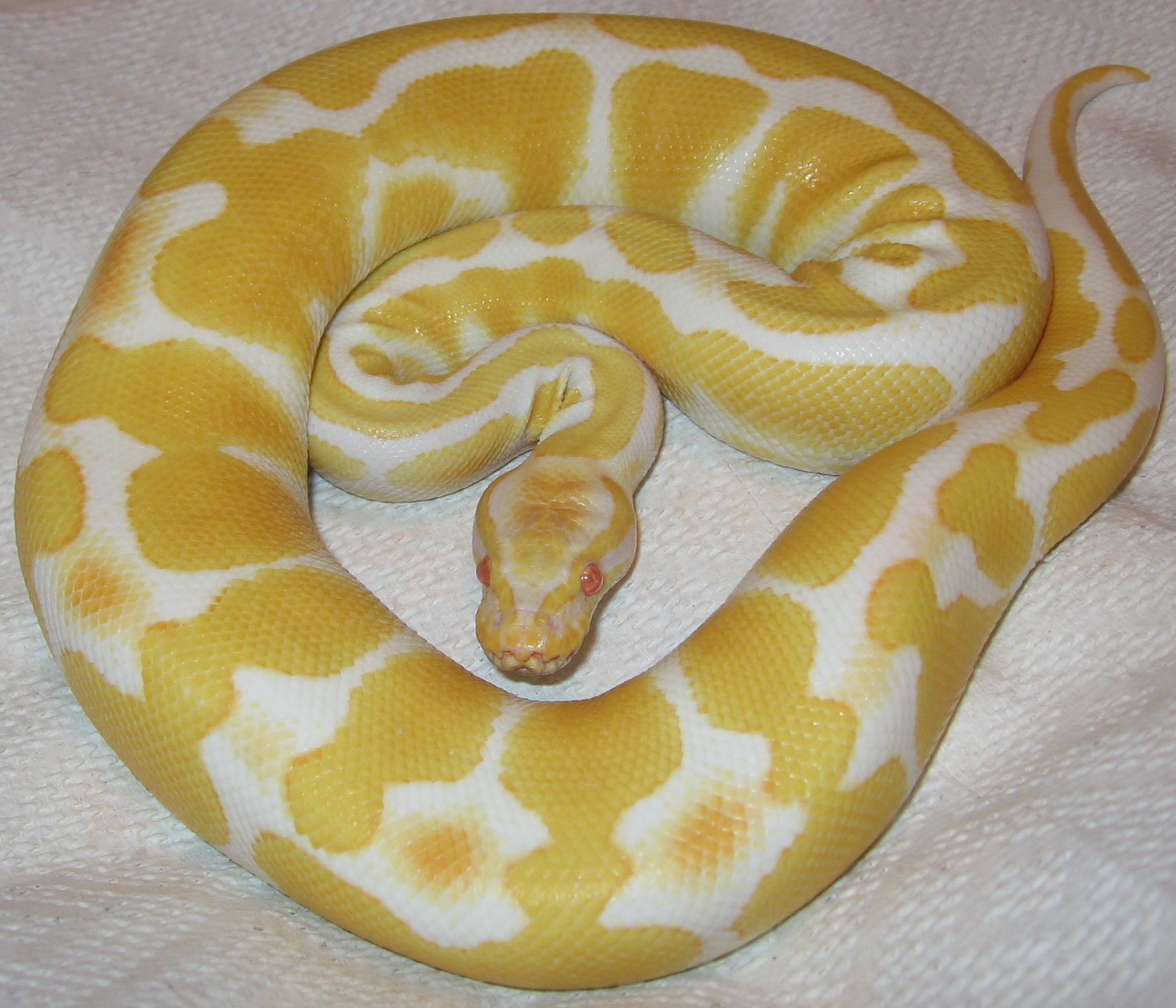 Albino (technically, amelanistic) juvenile ball python. These animals lack black and red pigments.